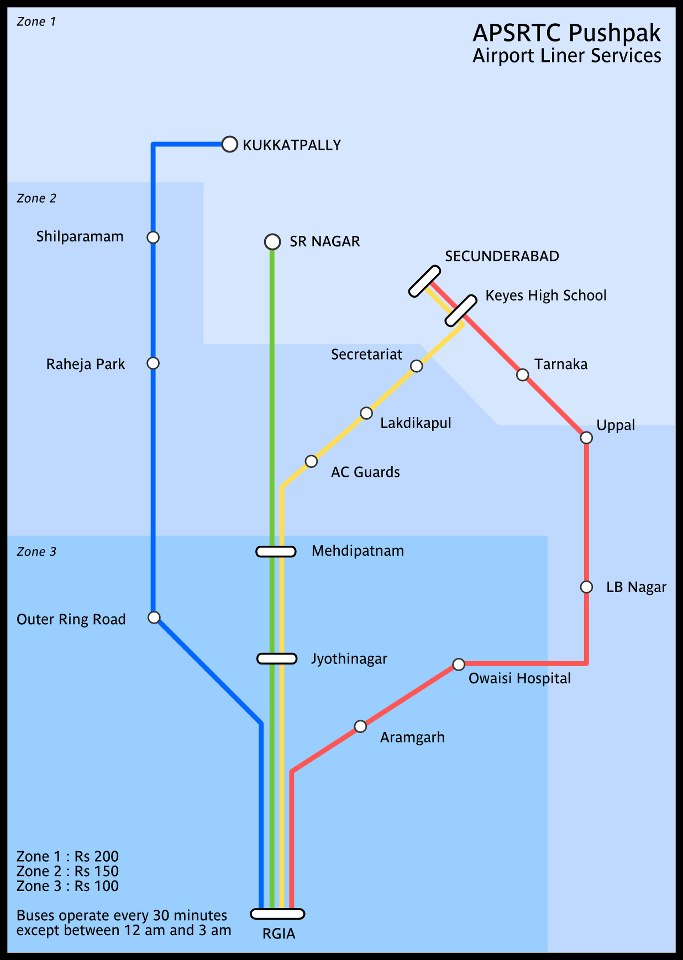 A list of all the bus stops where you can board the Pushpak Airport liner.